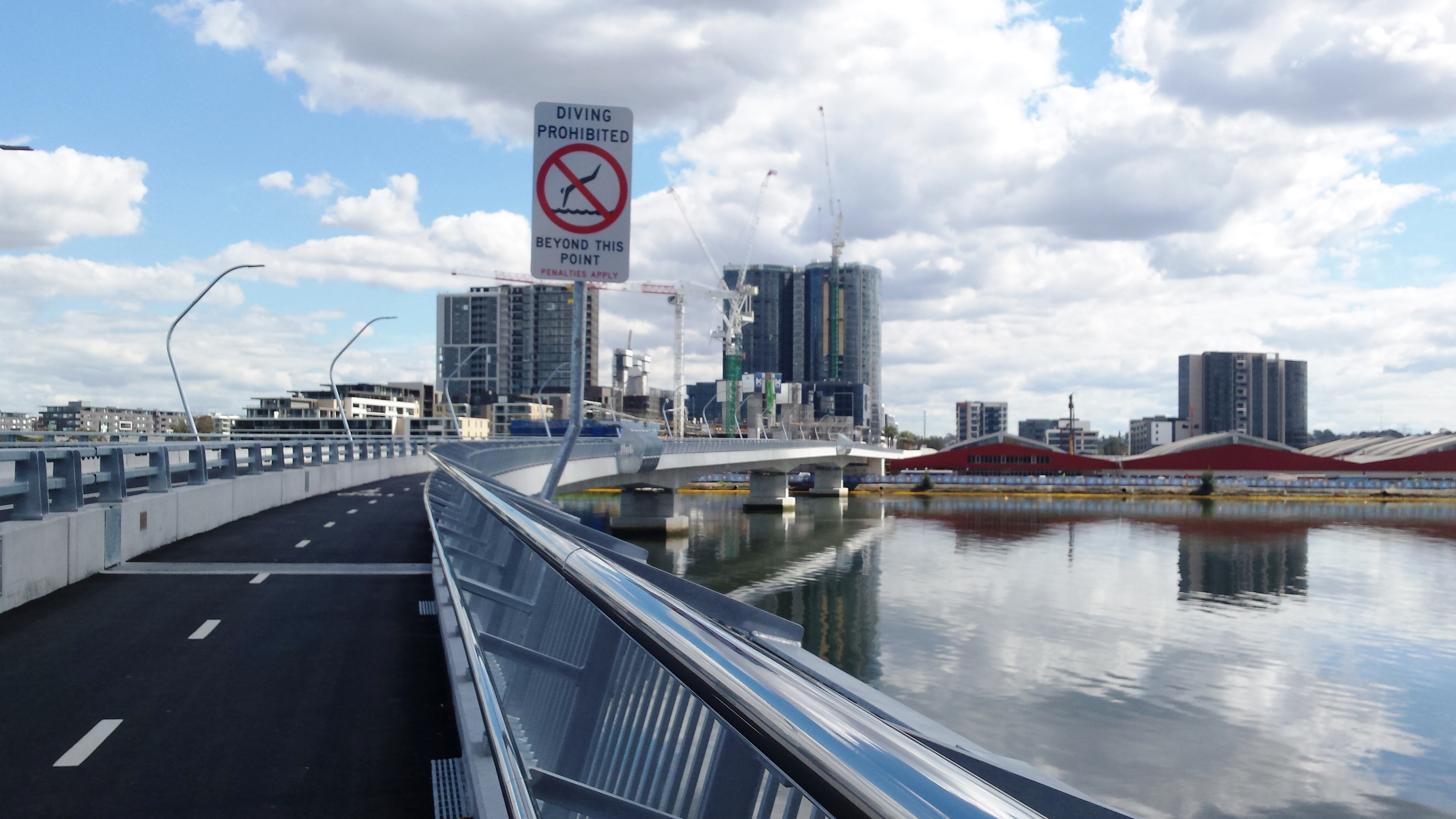 Bennelong Bridge in Sydney, viewed from the pedestrian path looking west towards Wentworth Point.